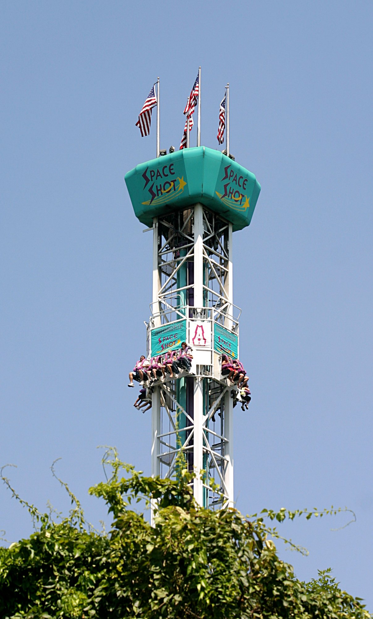 The space shot at Adventureland in Altoona, Iowa.